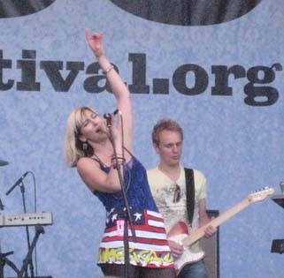 This is a photo of, singer-songwriter, Zarif performing at Rise Festival 2008 in Finsbury park, London.